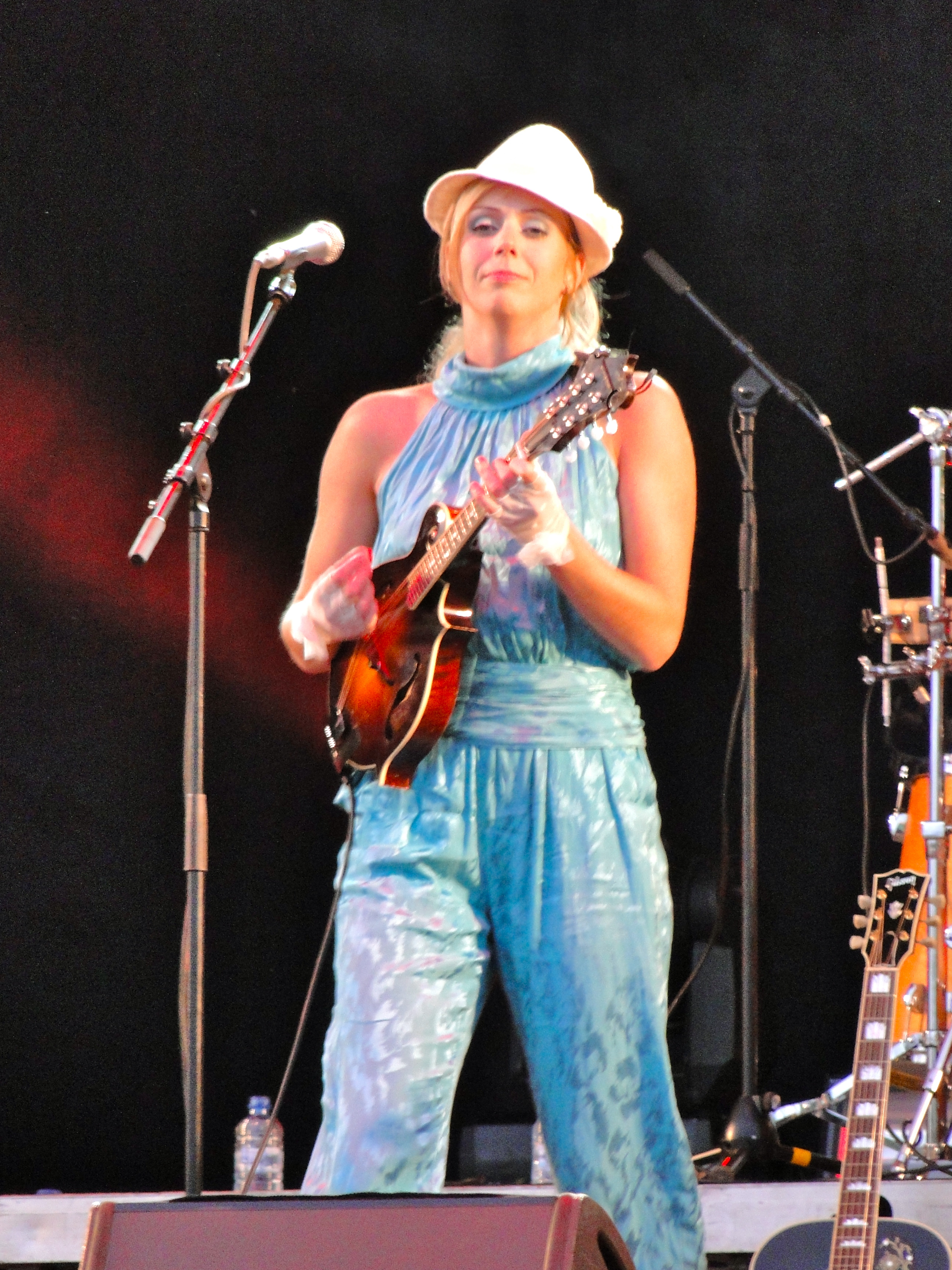 Turid Jørgensen at "Hamburger Kultursommer", Germany, 2011